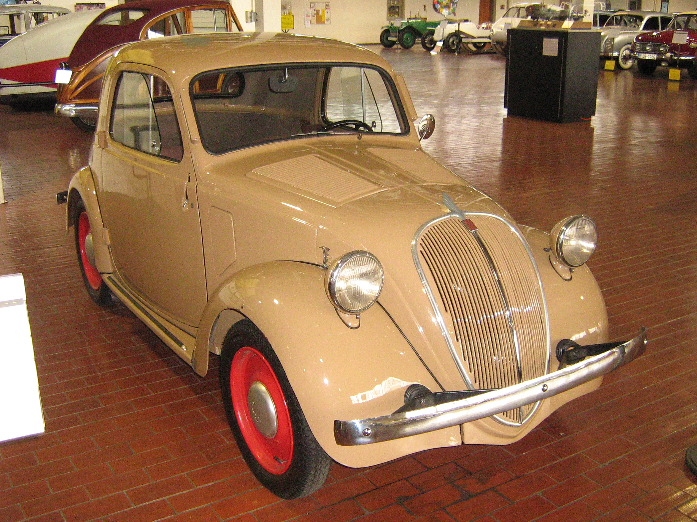 1936 Fiat 500 Coupe